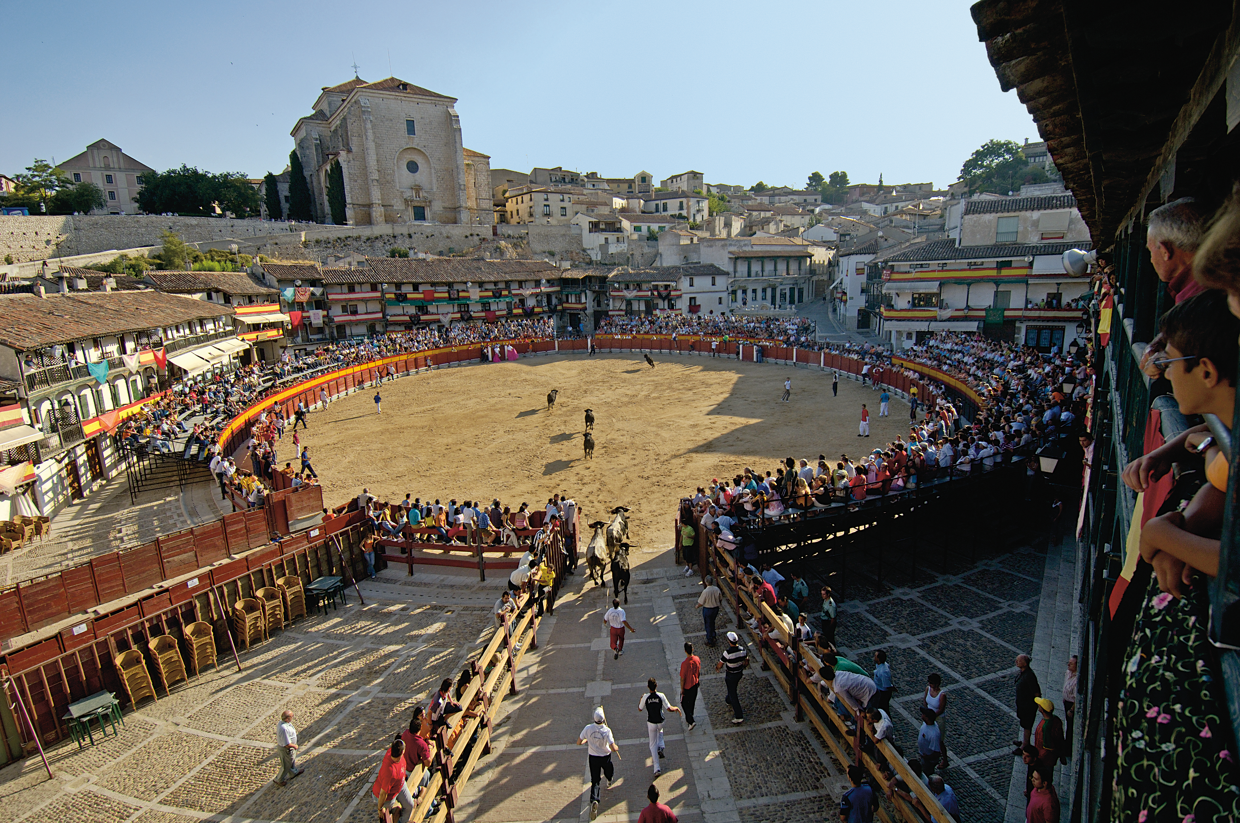 Chinchón Main Square This photograph can be used for publications, including this copyright statement: “©PromoMadrid, author Max Alexander”. Esta fotografía puede usarse en publicaciones, incluyendo la declaración “©PromoMadrid, autor Max Alexander”.